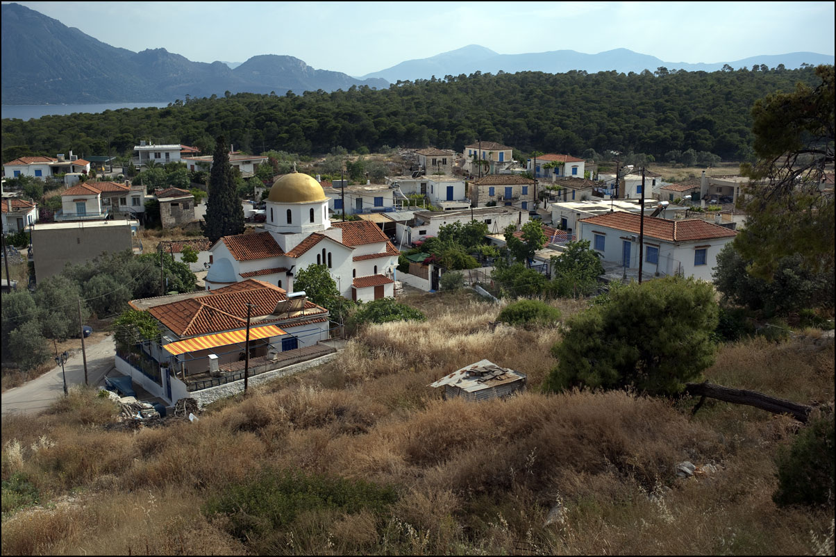 Village Limenaria / Angistri island, Saronic Gulf, Greece.